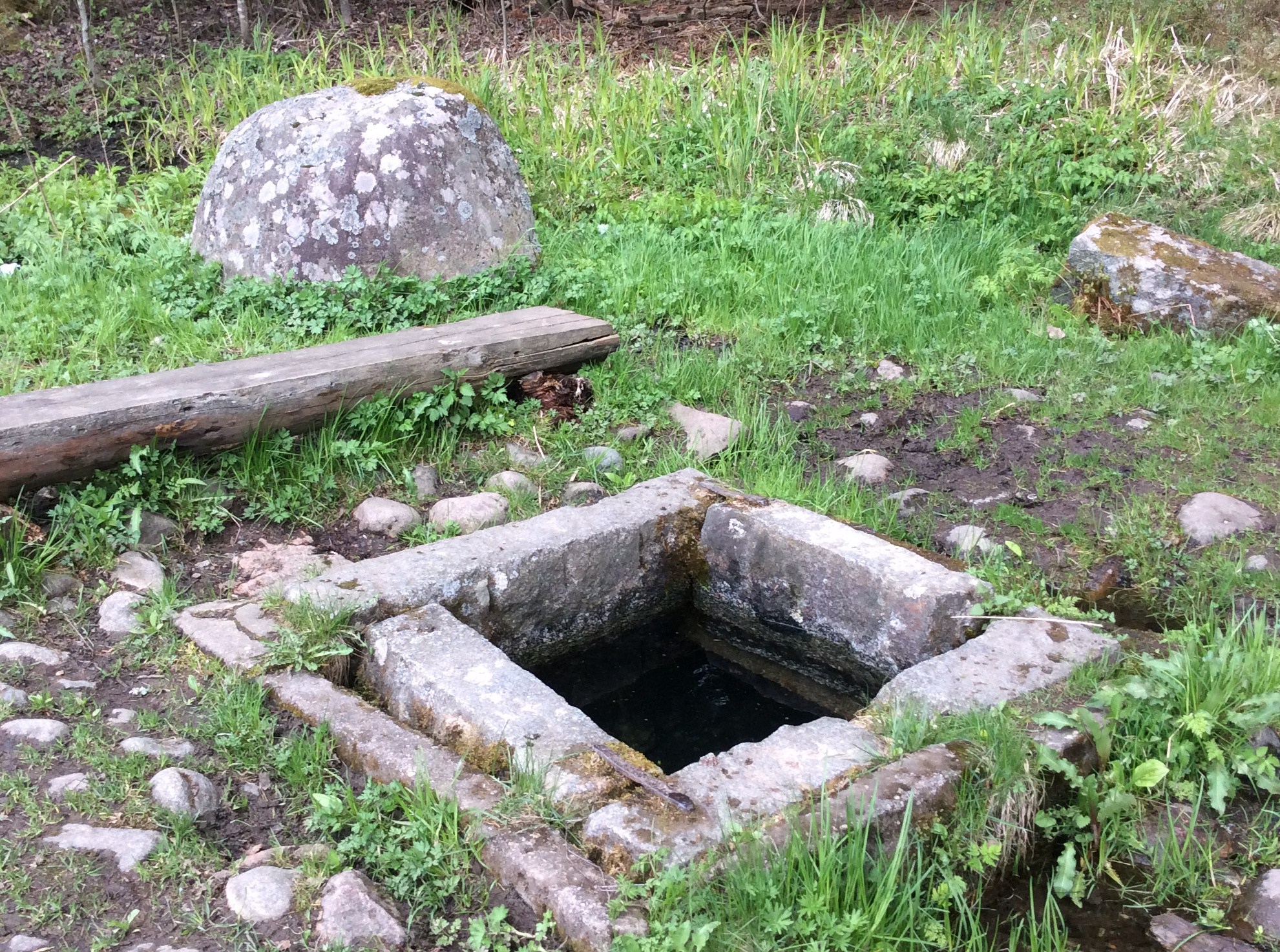 Laurinlähde, natural spring located at Janakka municipality, Finland.